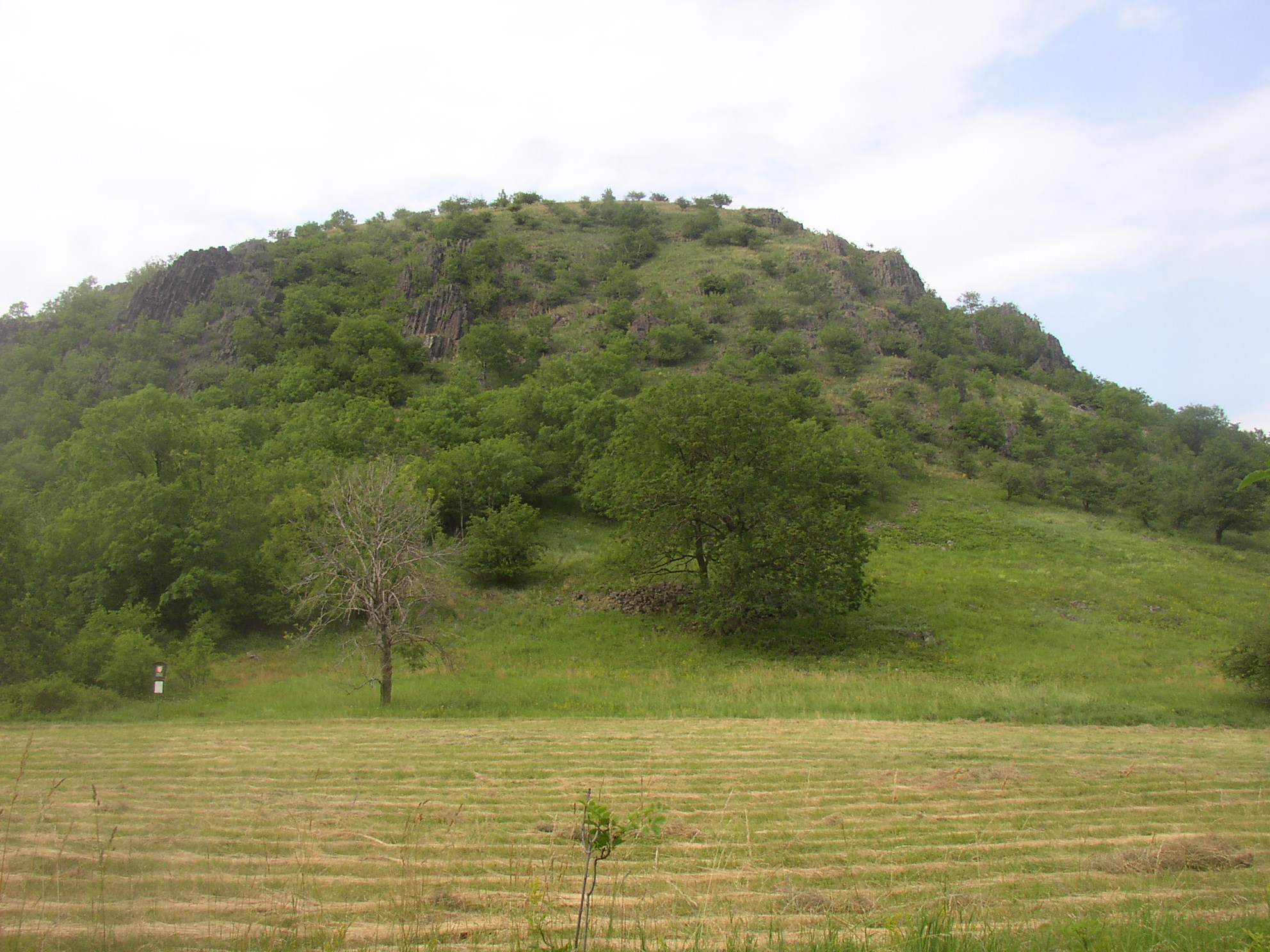 Milá hill (510 m) in České středohoří, Czech Republic A view of the south slope.